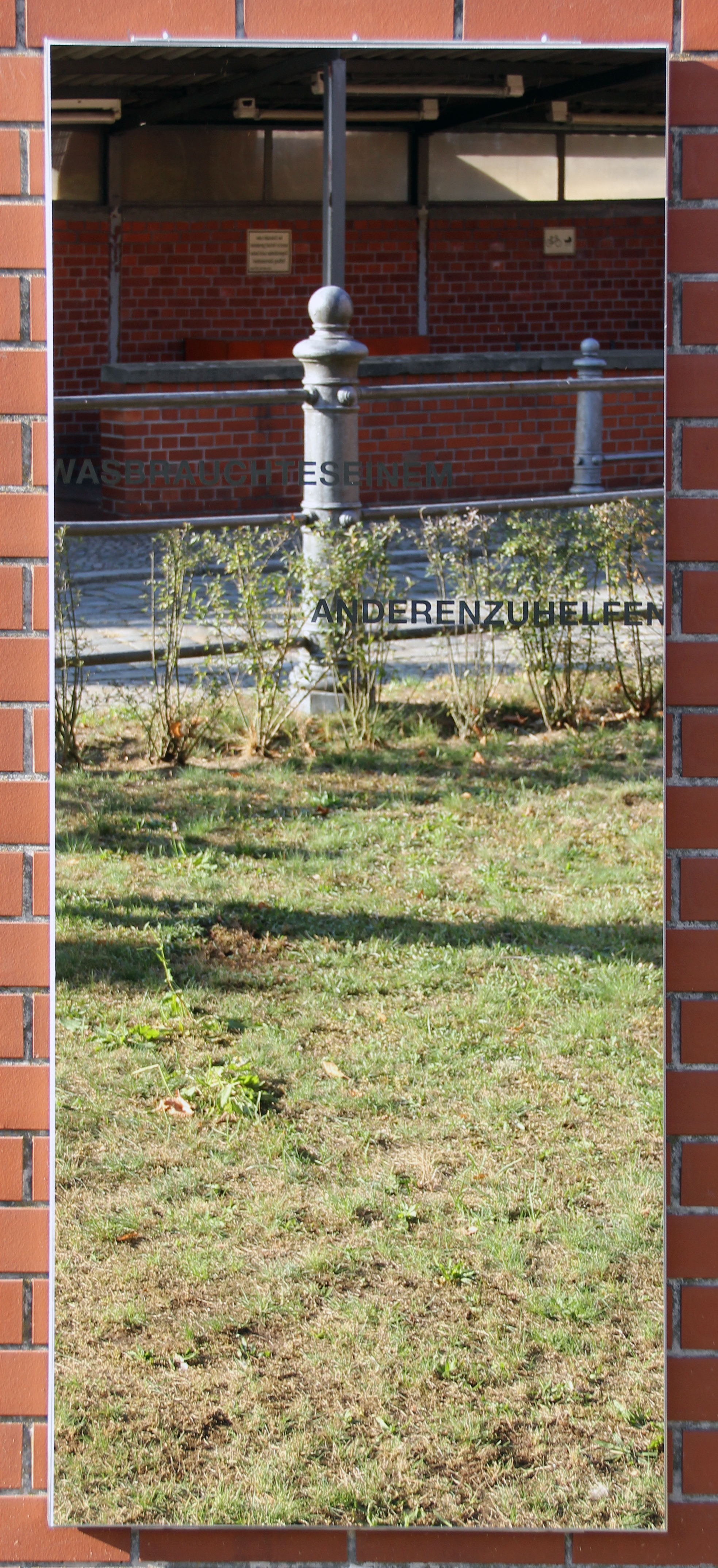 Sculpture, "Soziale Skulptur" by Katrin Hattenhauer, 2018, Seidelstraße 39, Berlin-Tegel, Germany